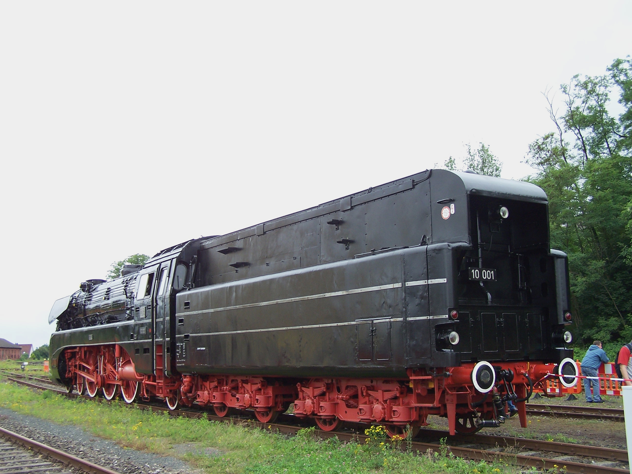 German steam locomotive DB Class 10 No 001 in Hersbruck, Germany, June 30th, 2007